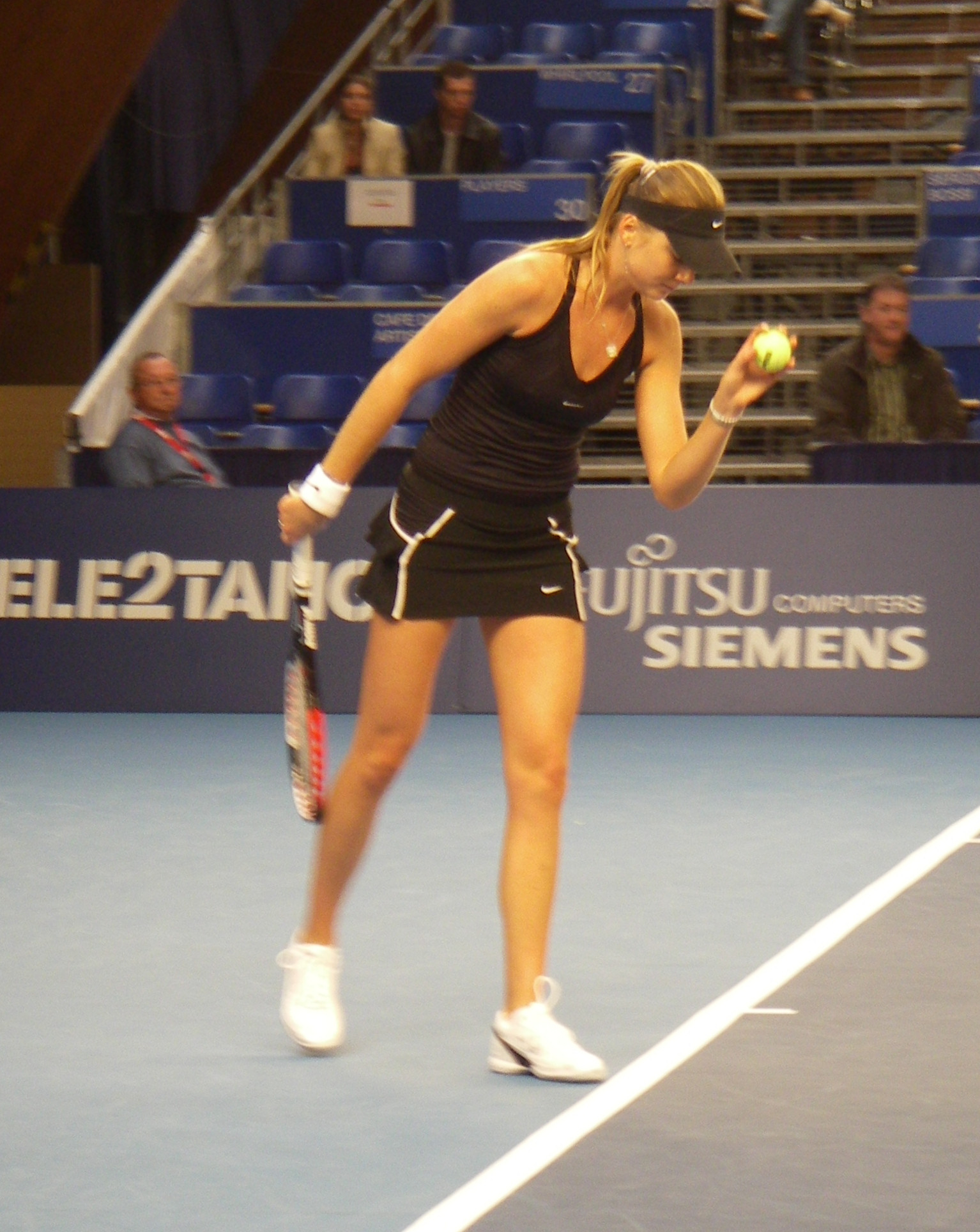 Daniela Hantuchova during Fortis Championships 2007